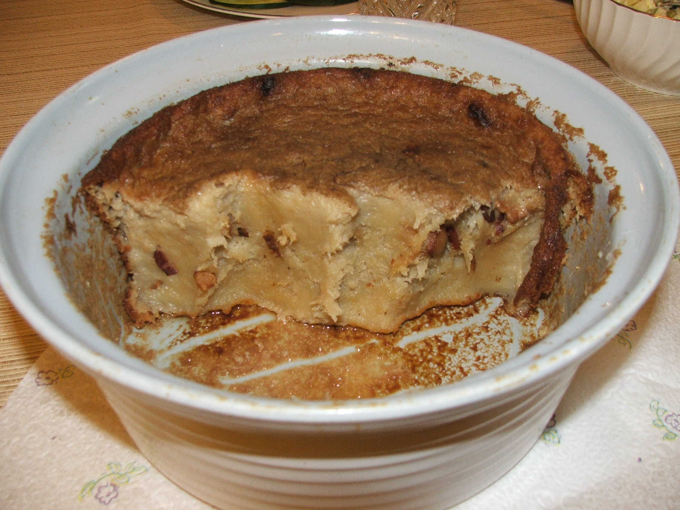 Belarusian traditional potato dish "babka"